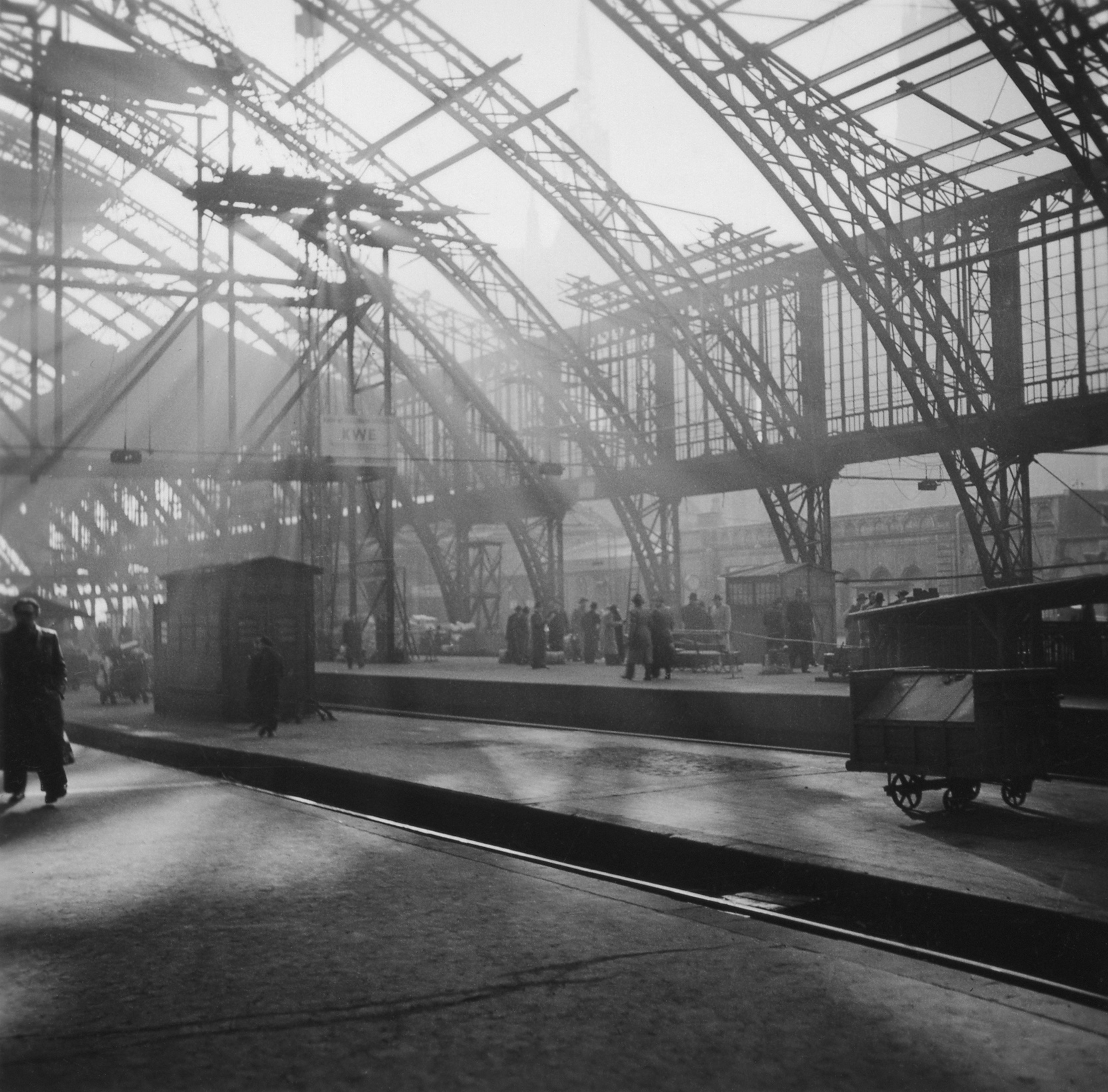 Cologne Central Station, Germany.